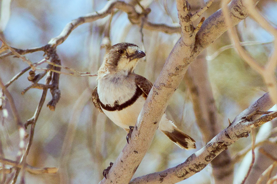 A Banded Whiteface near Strzelecki Track, South Australia, Australia.